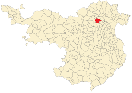 Llers